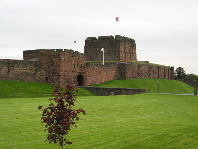 Carlisle castle Taken looking northeast from the steps of the footbridge over the A595 Castle Way.